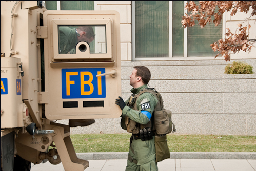 FBI agents from the Washington Field Office with one of the tactical vehicles they had standing by for the 2009 Presidential Inauguration